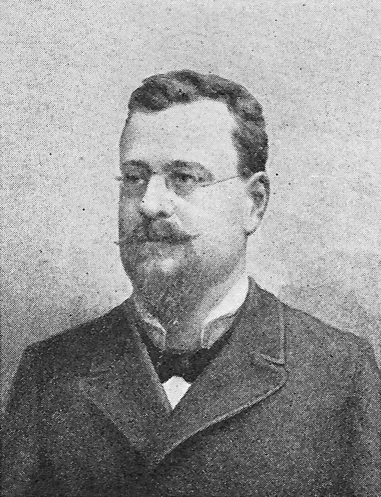 Swedish professor Henrik Schück (1855-1947).